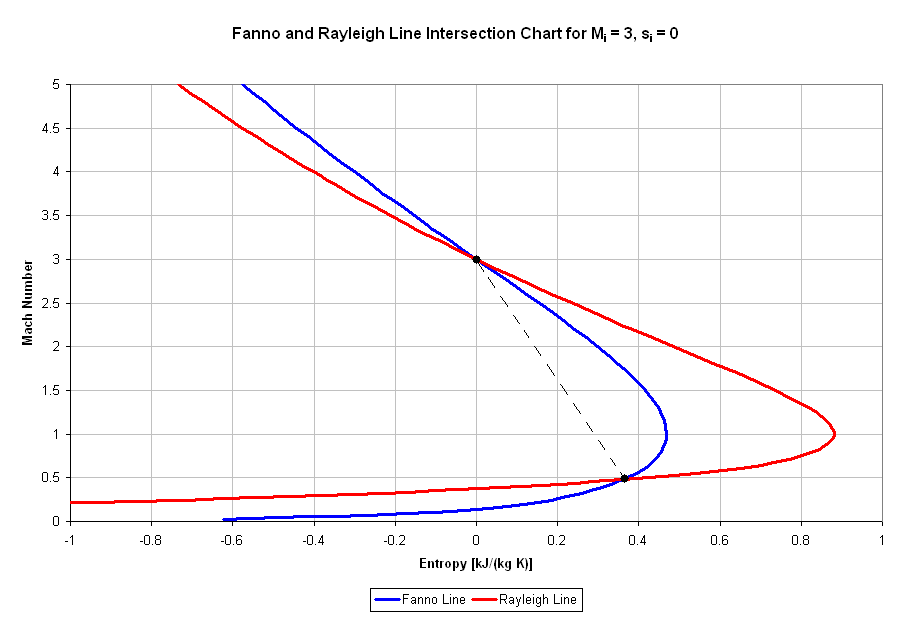 this graph shows the Fanno and Rayleigh lines intersecting for a given initial Mach number - intended for the Fanno and Rayleigh flow articles.